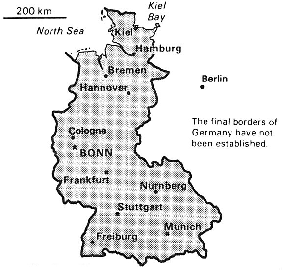 A map of the Federal Republic of Germany, showing its capital, Bonn, and major cities.